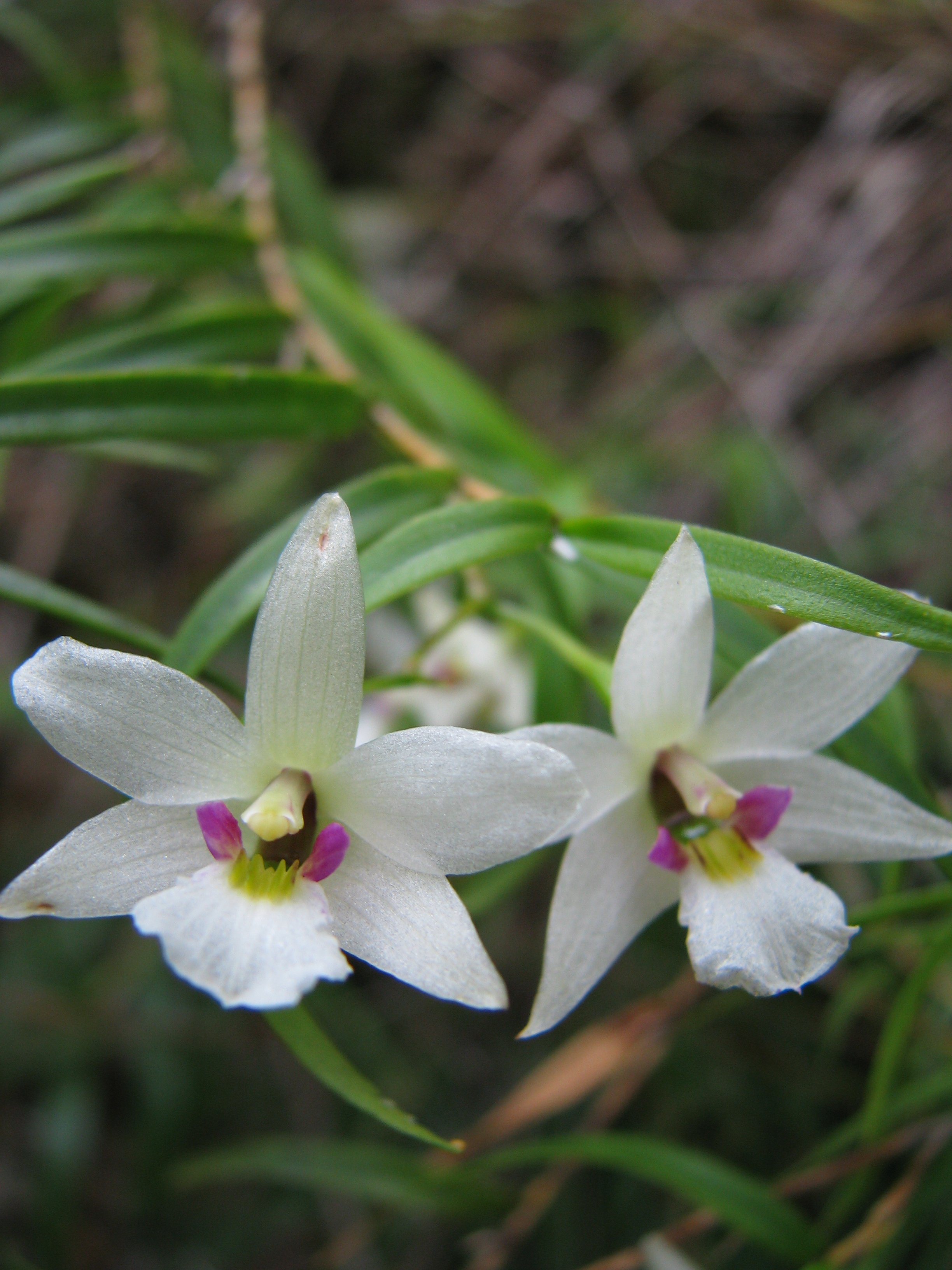 Winika cunninghammi plant photographed in East Harbour Regional Park, Eastbourne, Wellington, New Zealand.